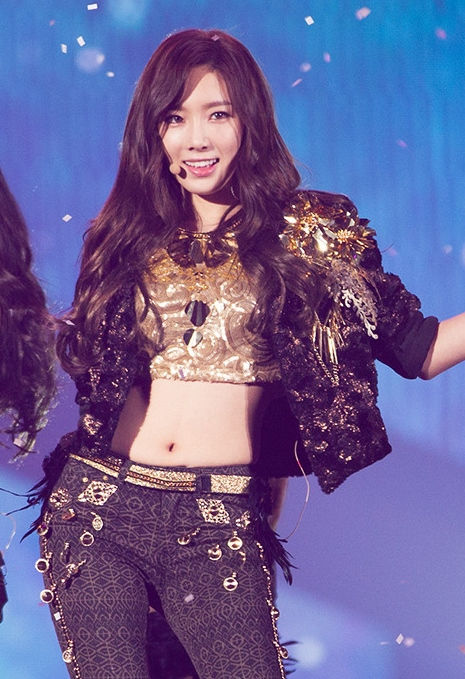 Taeyeon at SBS Gayo Daejeon on December 29, 2013.